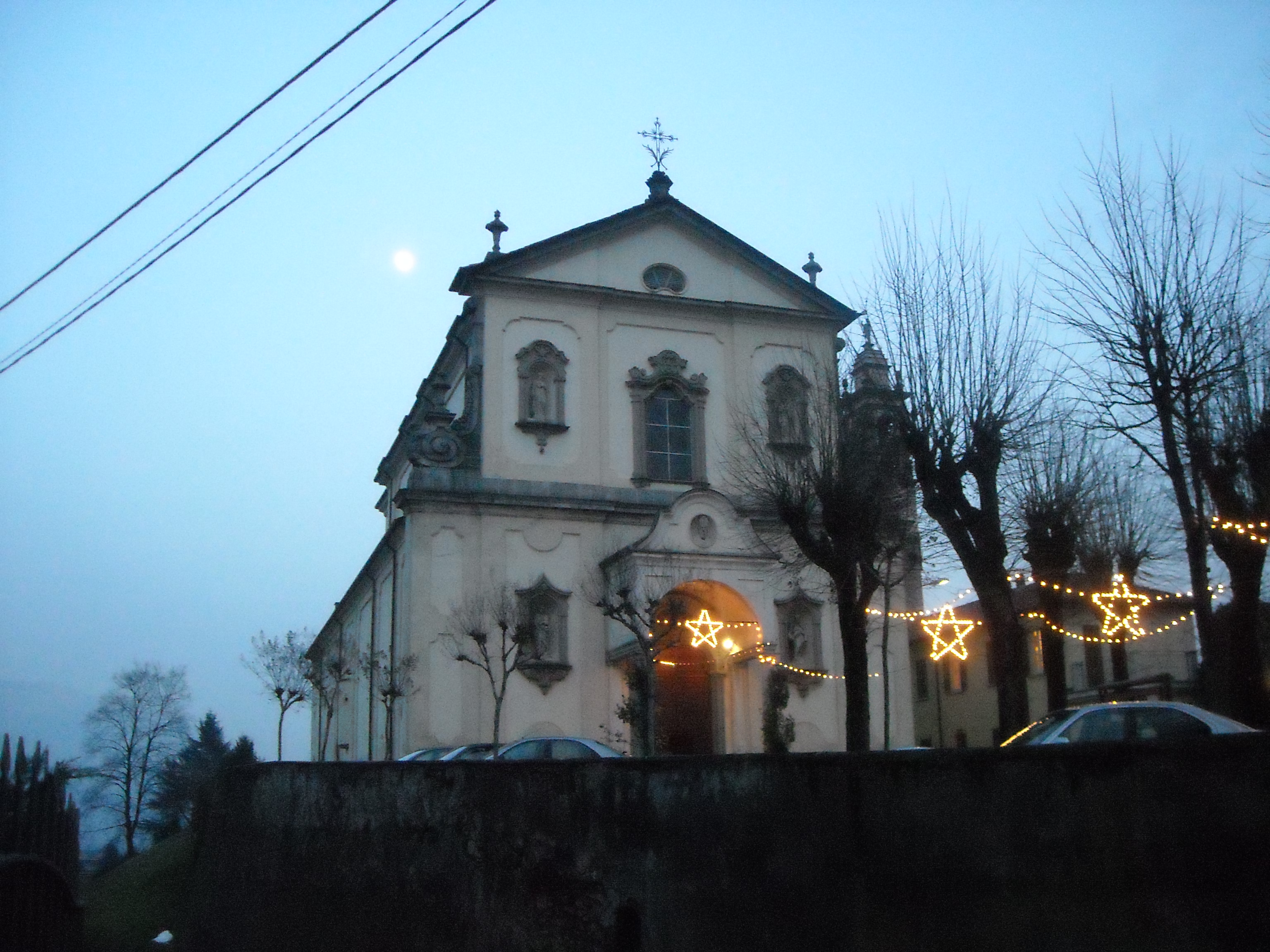 Church of St. Zeno, Olgiate Molgora, Lecco, Italy